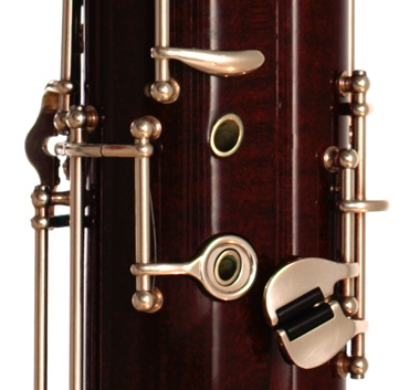 Open and closed Keys on a bassoon